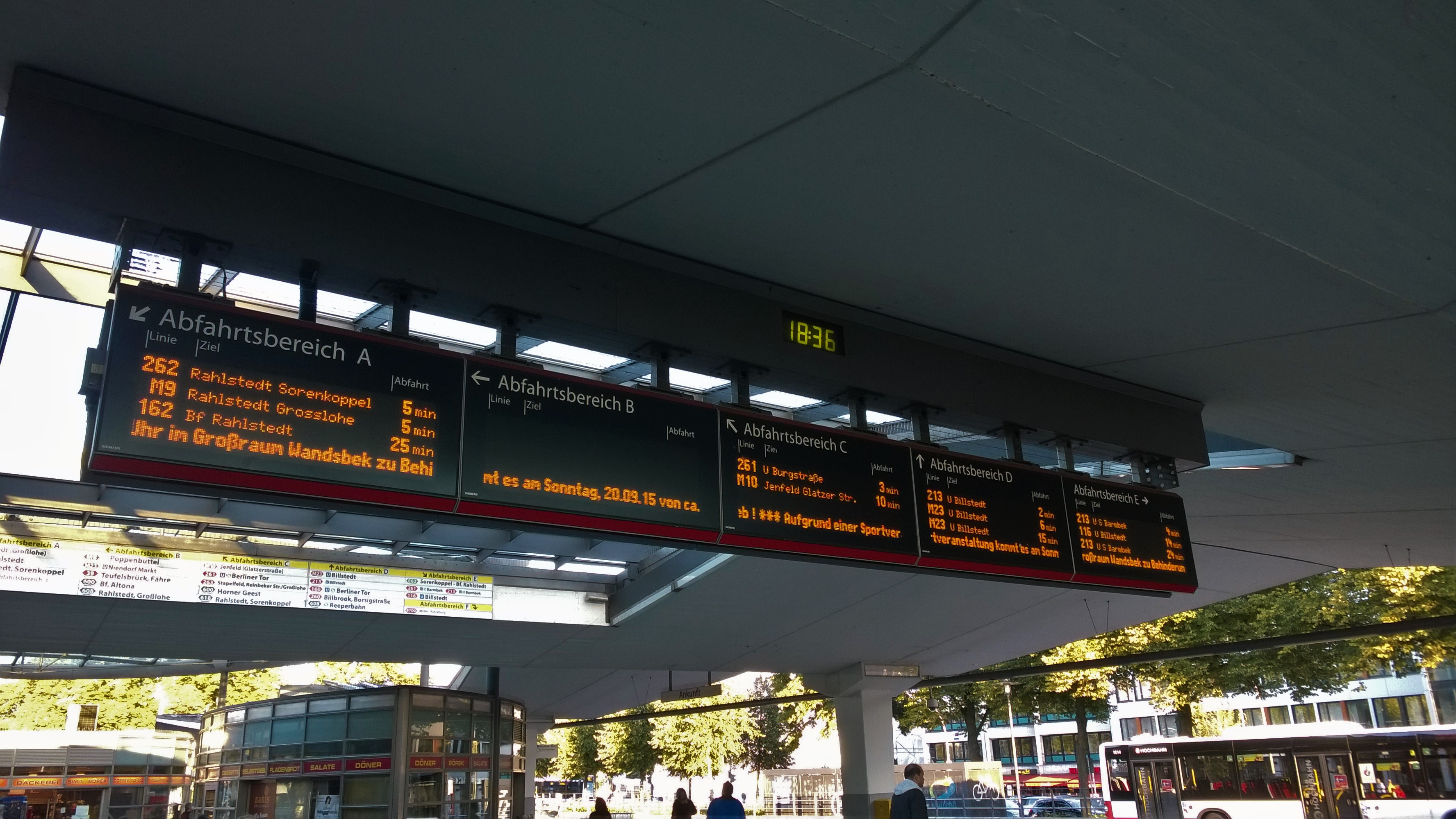 Passenger information and management system at the bus station Wandsbek market during a sporting event